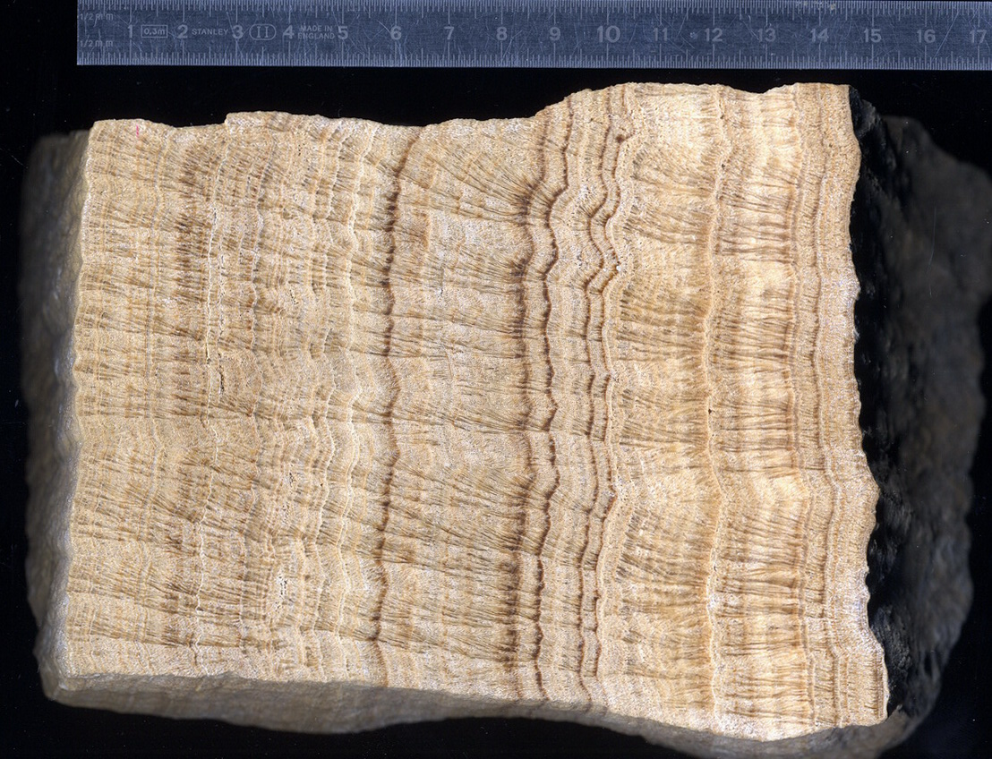 Calc sinter deposits, covering the inner walls of the Roman aqueduct Mons/Montauroux - Fréjus, in a karstic region of the Provence-Alpes-Côte d’Azur. The calcareous layers are distinct and dense (average: 1 mm/year).